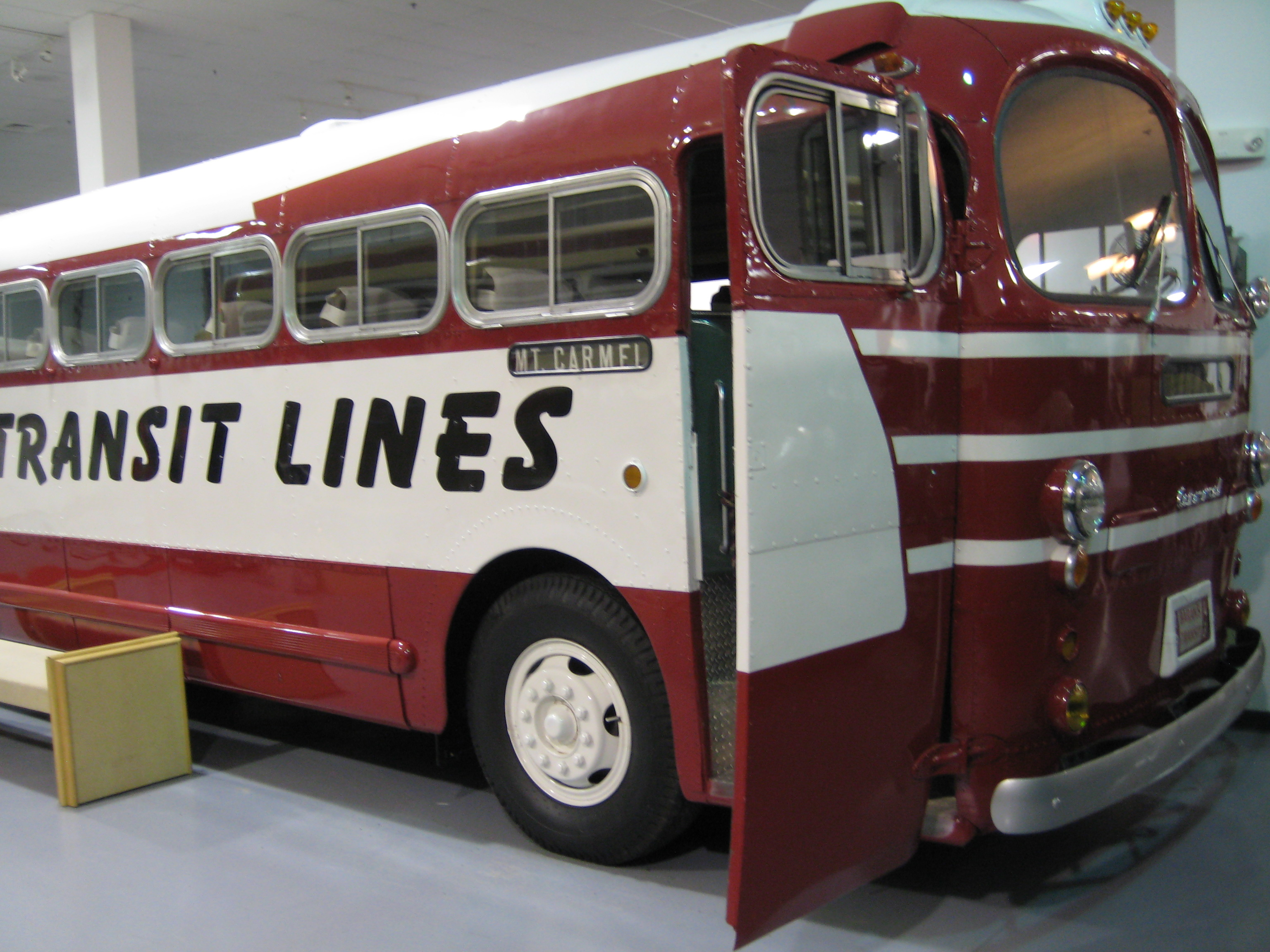 National Bus Museum is in the basement of the museum of the Antique Automobile Club of America in Hershey, Pennsylvania.